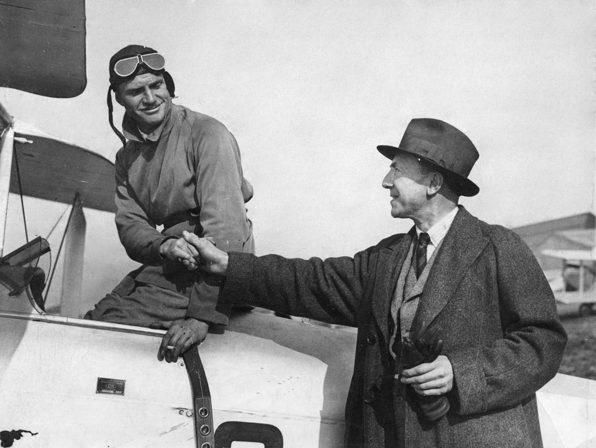 Photograph of C.W.A. Scott and Charles Kennedy Scott.